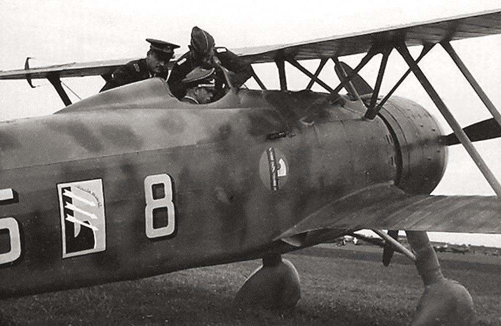 A German Officer sitting in the cockpit examines the control panel of a Fiat CR.42 "Falco" of the 85th Squadron, XVIII Group C.T. (Terrestrial Fighter Group), 56th Wing C.T., Italian Air Corp, Battle of Britain, Belgium 1940